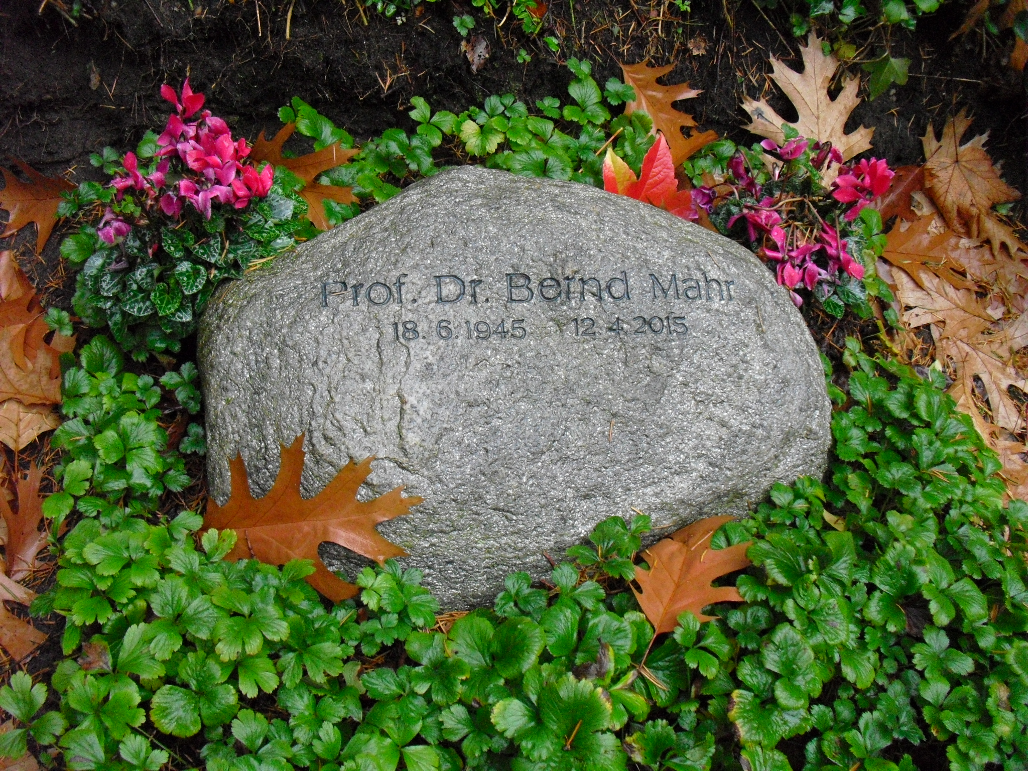 Grave of German mathematician Bernd Mahr at Friedhof Heerstraße in Berlin-Westend